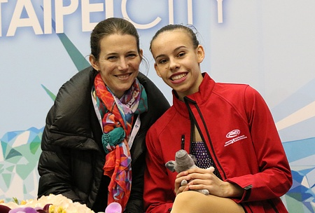 Hana Cvijanović and Ivana Jakupčević - 2017 World Junior Championships